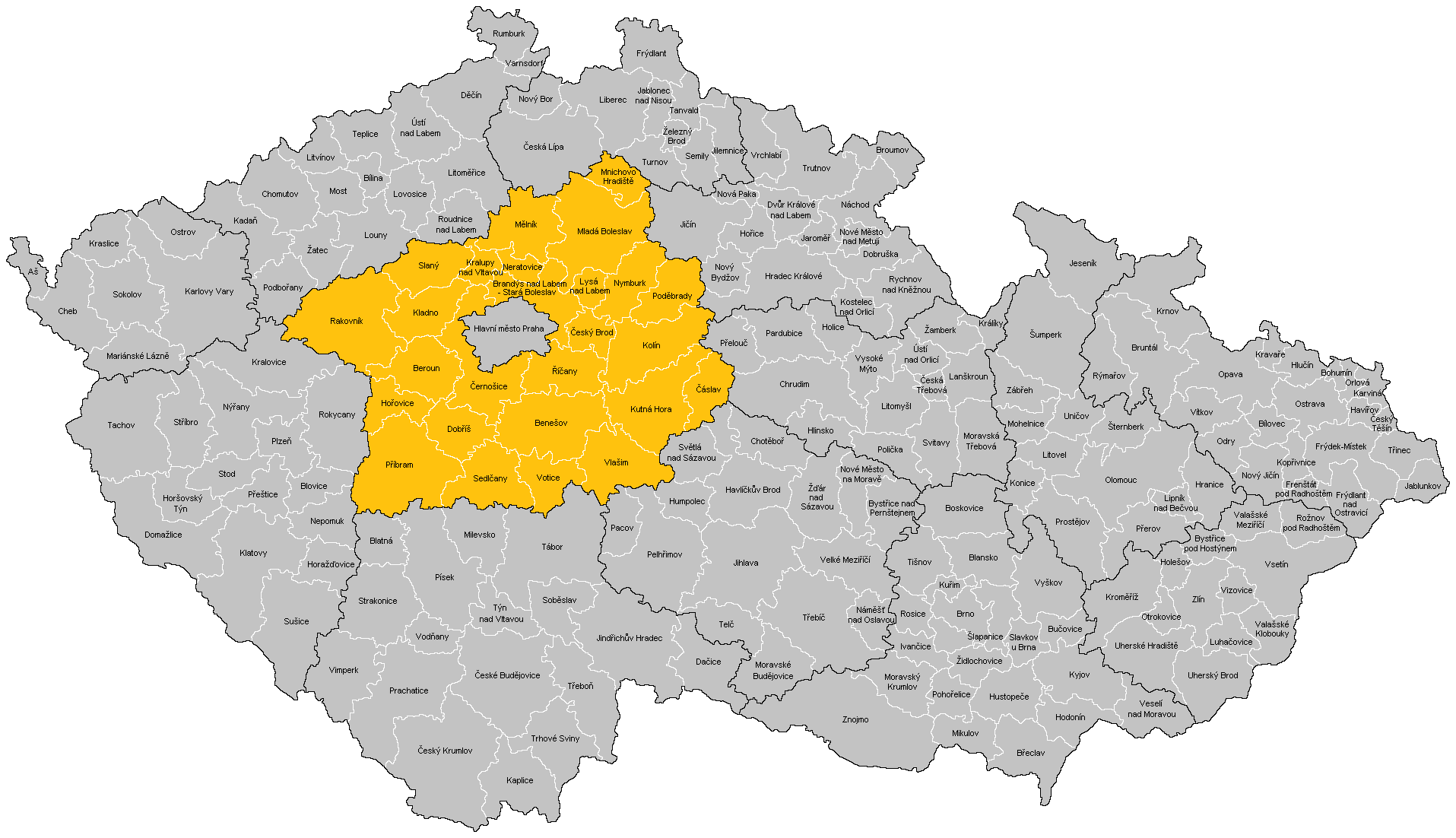 Administrative divisions of Central Bohemian region